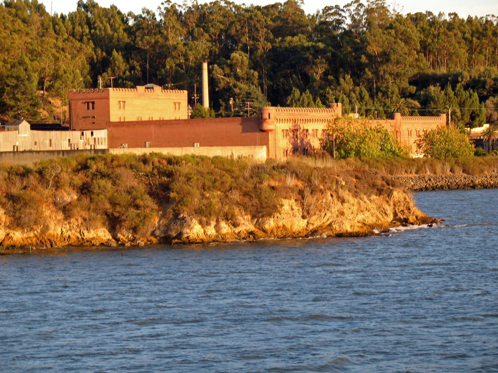 National Register of Historic Places listings in Contra Costa County, California. Winehaven, Point Molate, Richmond, California, USA. Photographed 2008-09-21 from a point of land northwest of the site.